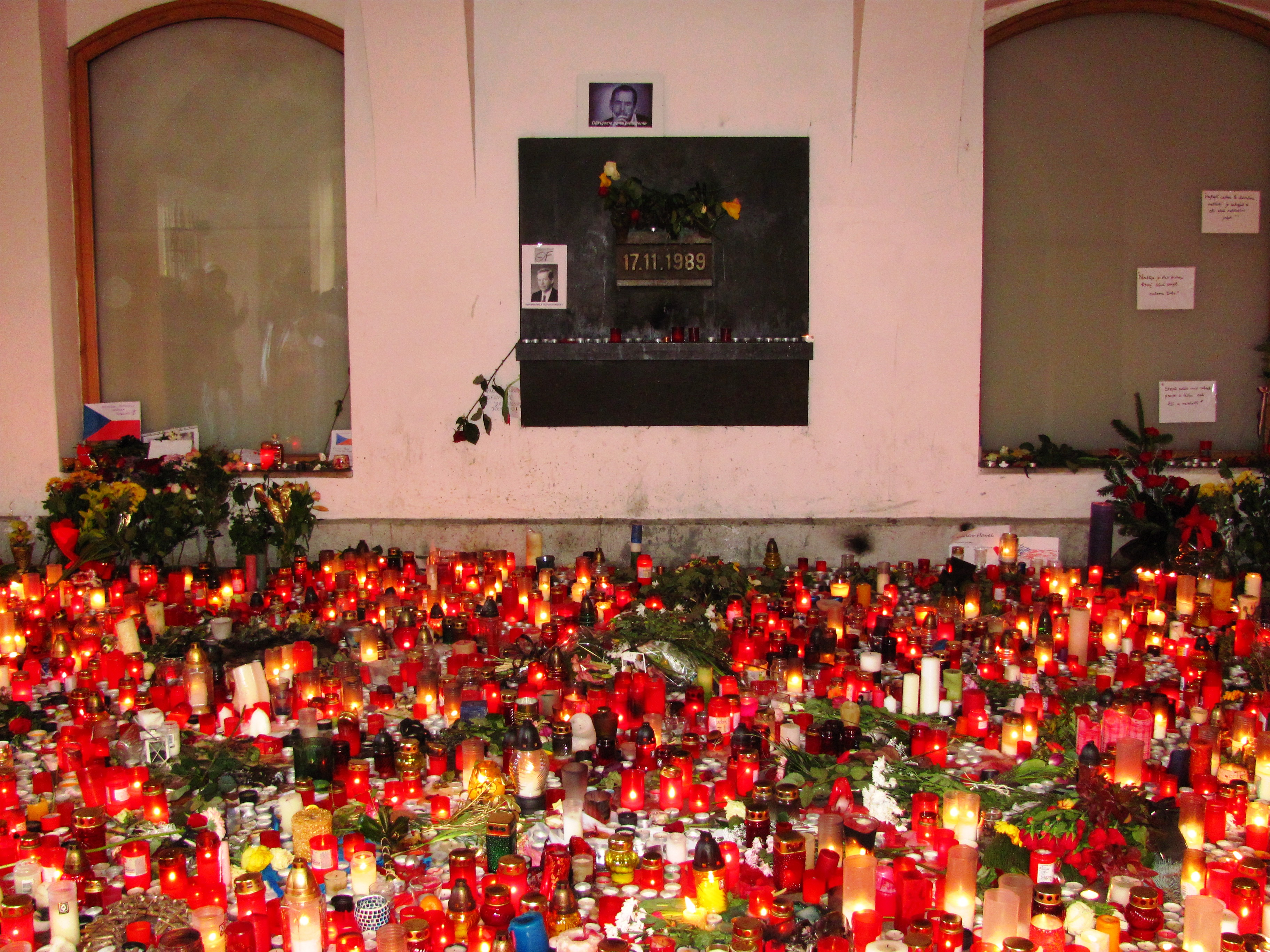 Candles and flowers at Velvet Revolution Memorial at Národní Street in Prague in memory of President Václav Havel (Dec.19th, 2011)Unknown svíčky a květiny u památníku sametové revoluce na národní třídě v praze na paměť presidenta václava havla (19.prosince 2011)